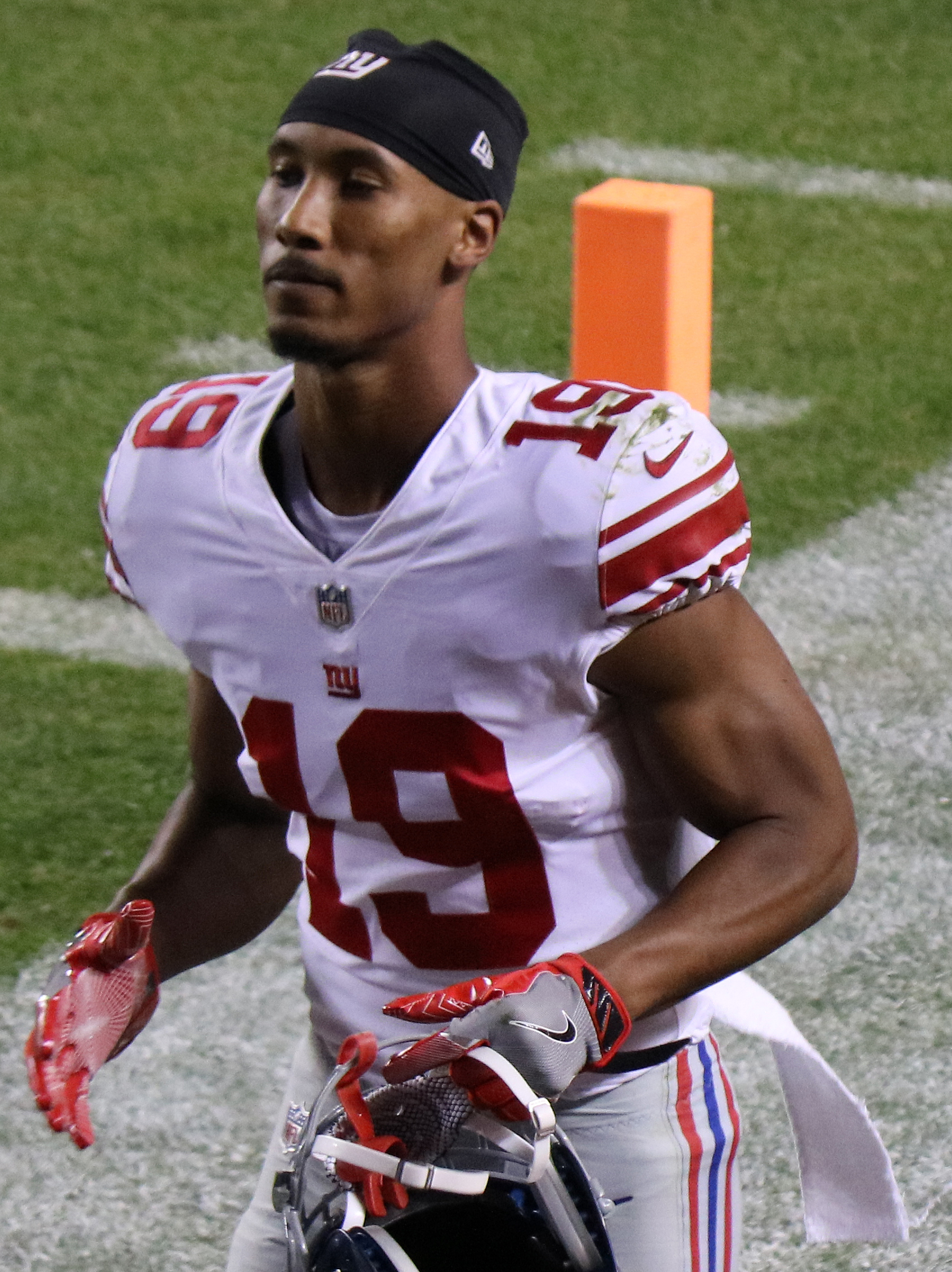 Travis Rudolph, a player on the National Football League.